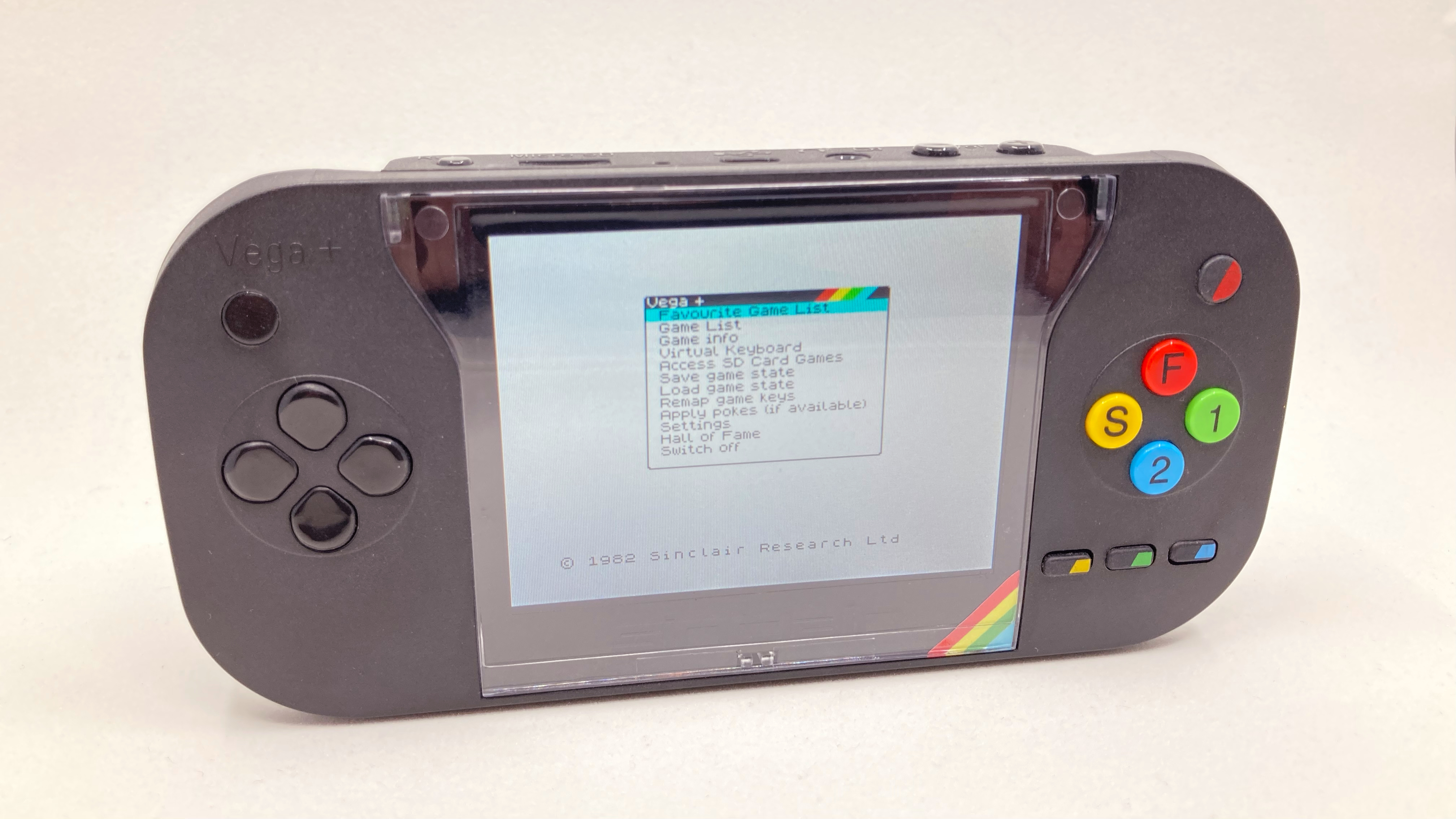 The delivered version of the Sinclair ZX Spectrum Vega Plus (Vega+) unit